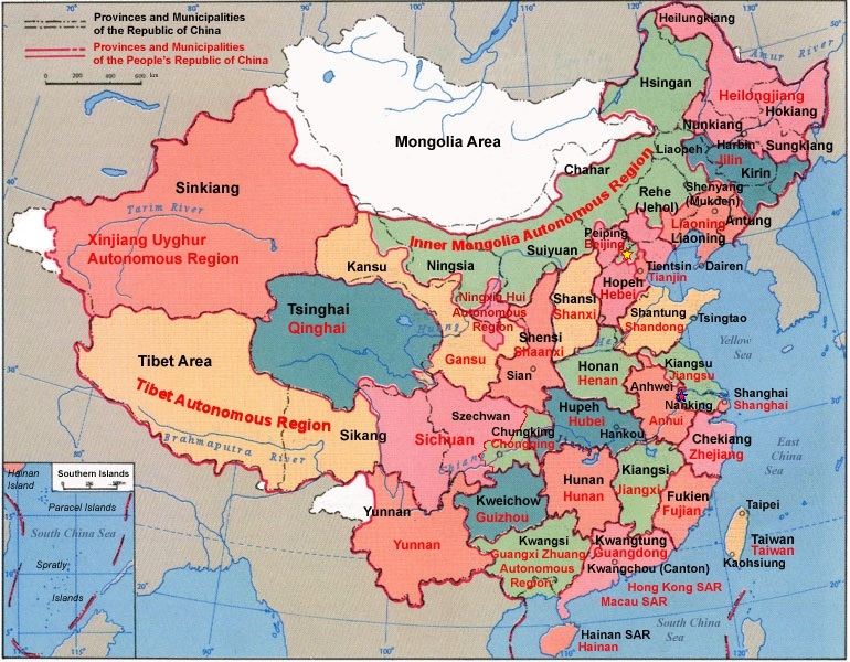 Comparison between Republic of China and People's Republic of China administrative divisions. Legend details Black dotted lines are political boundaries drawn by the ROC. The formal names of these political entities are in black White areas represent the territories claimed by the ROC but not the PRC. The names and the boundary of "South China Sea" is self-claimed by China, which has no valid supported document. Therefore, It is remain a false information and should not be visible anywhere to prevent miseducation. Origin Adapted into English by Pryaltonian from the Chinese Wikipedia. The original ROC map included more cities, but the adaptation removed non-central municipalities to clean up the image. Therefore, this image contains: Republic of China 36 provinces 14 municipalities 2 areas 1 special administrative region People's Republic of China 23 provinces 4 municipalities 5 autonomous regions 2 special administrative regions 1 territorial base The image also includes the addition of Chongqing as a municipality and the Gansu-Qinghai border change. Comments, suggestions, adaptations, critiques are all welcome.